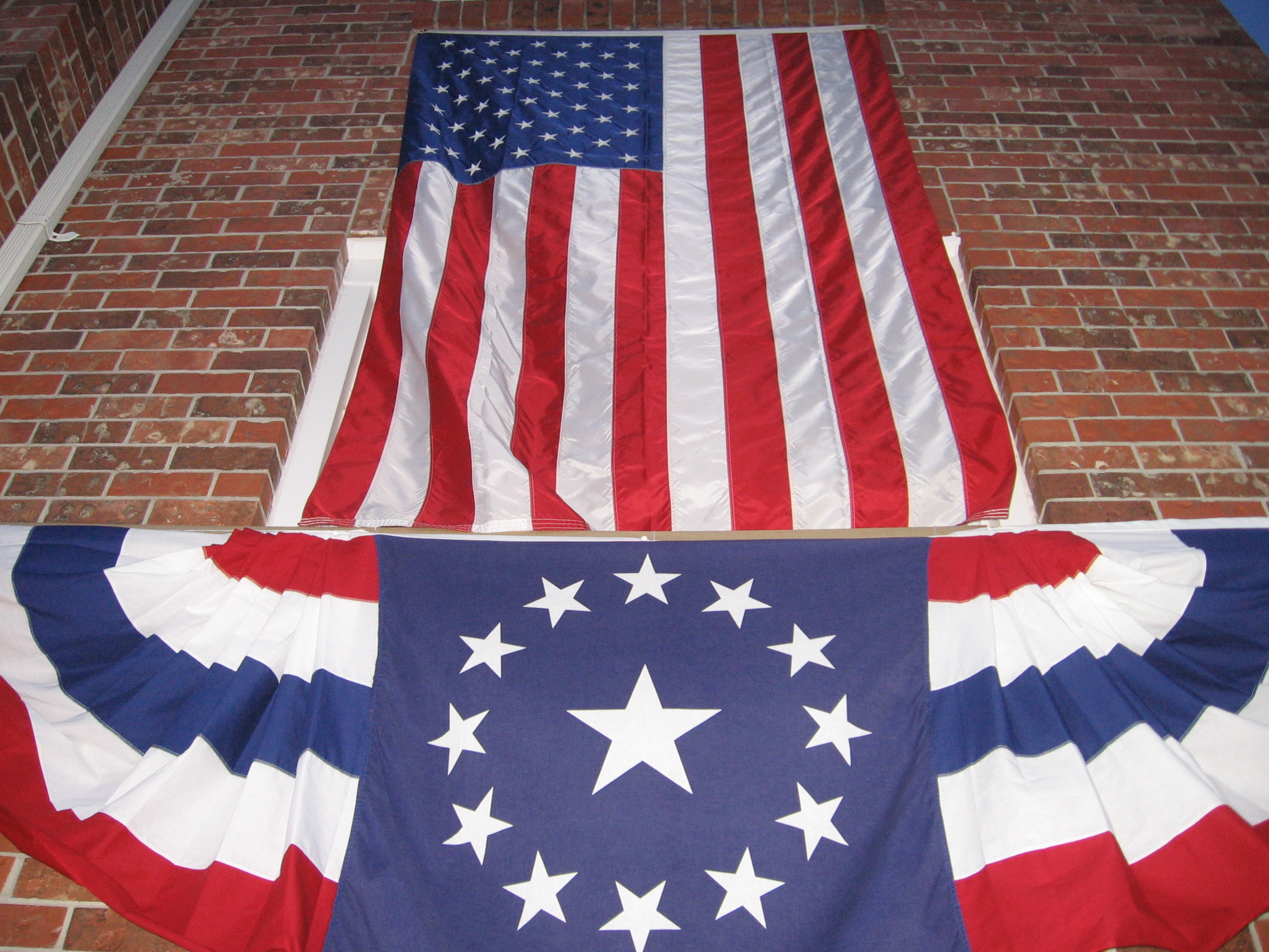 A patriotic display in Toronto, ON, for Washington's Birthday, 2007.